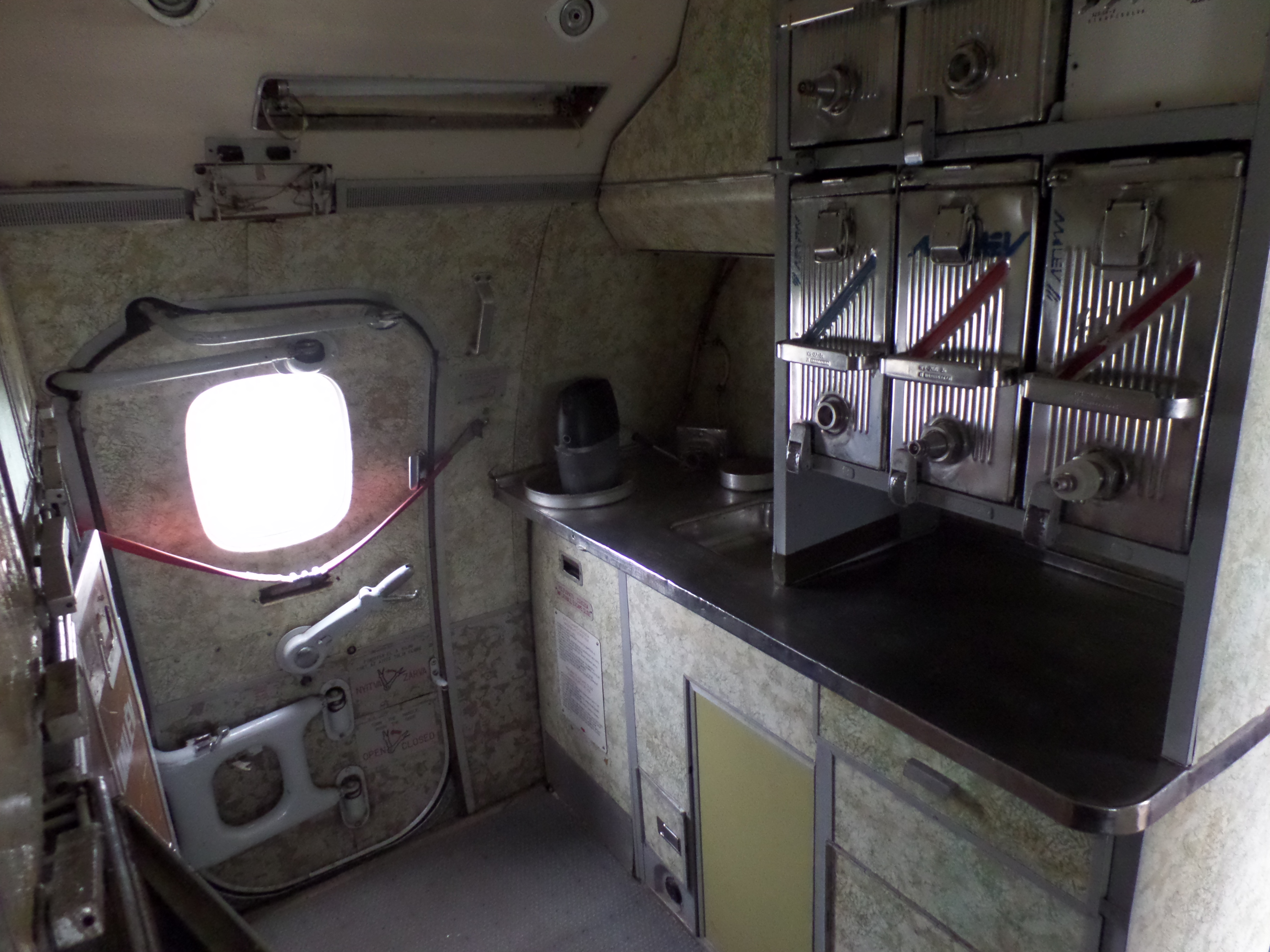 Middle galley of Malév Tupolev Tu-154B-2 HA-LCG at Aeropark Hungary on 20 October, 2016.